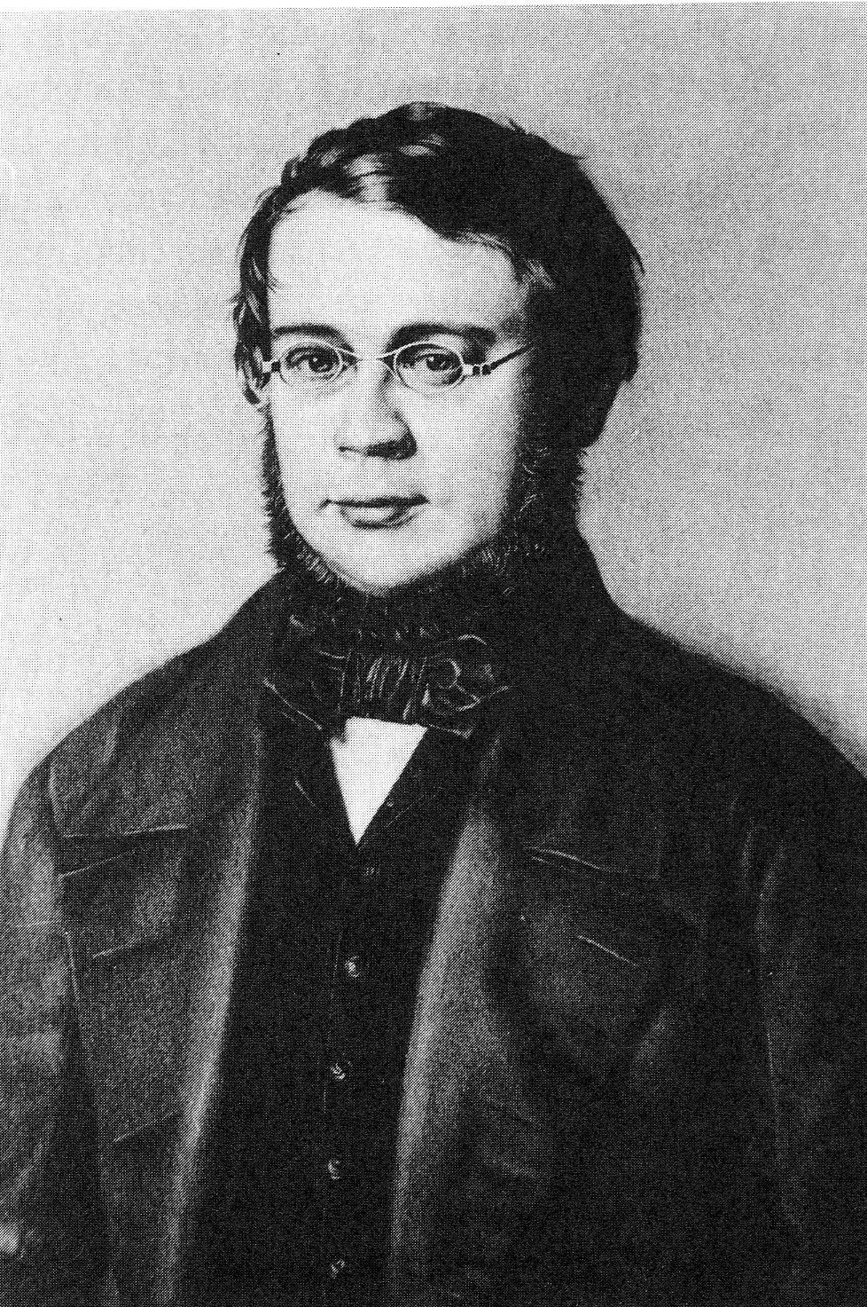 Otto Jahn (1813–1869) in Greifswald, 1837. Reproduction of an oil painting.